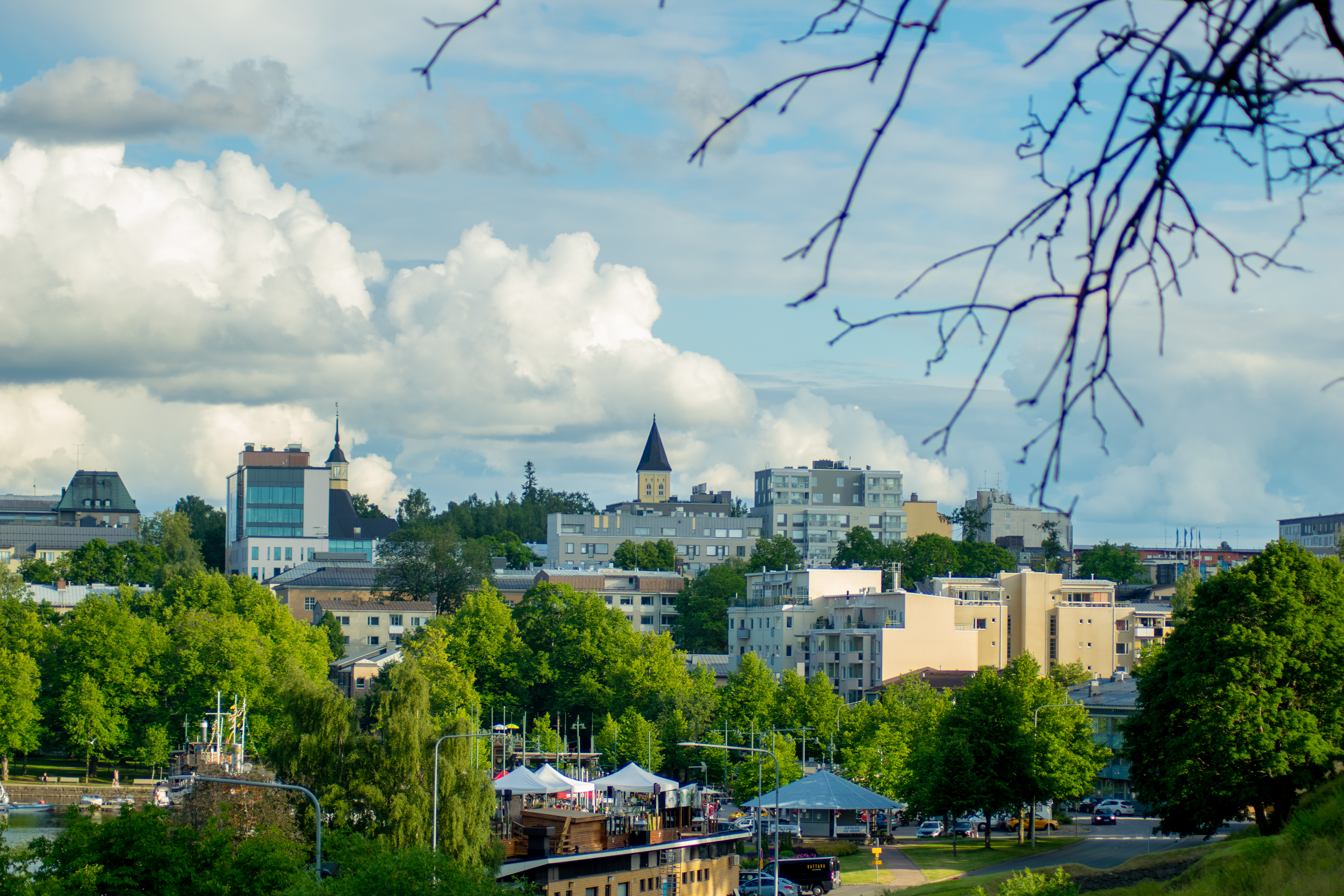 Landscape photo of the city Lappeenranta in Finland